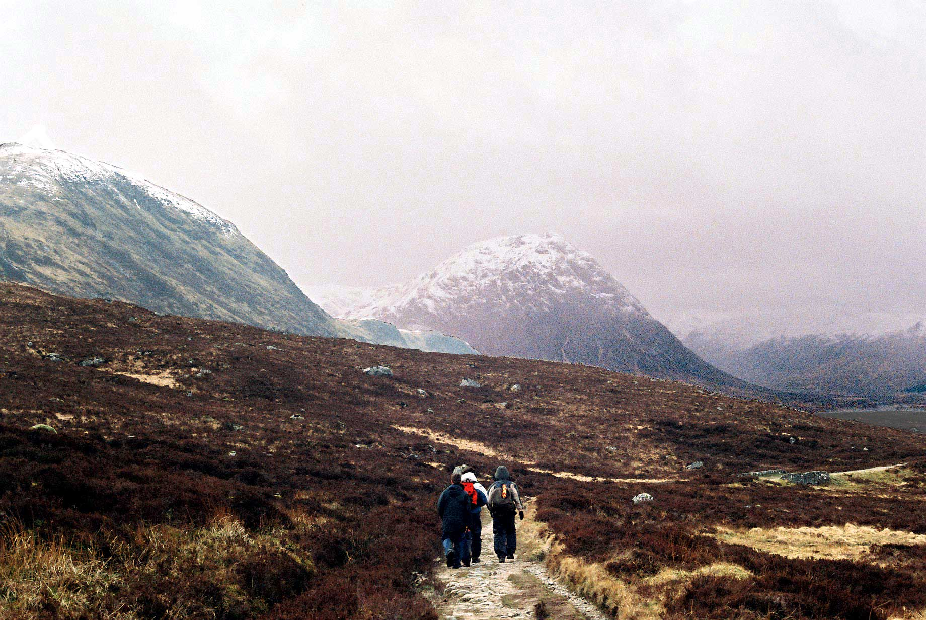 The West Highland Way in 2005